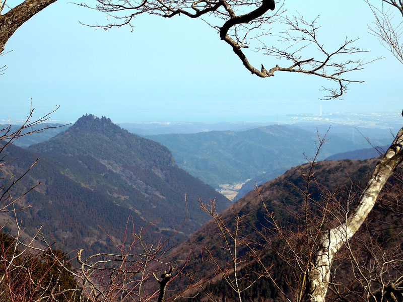 Mount Kubote (left) seen from the SSW.